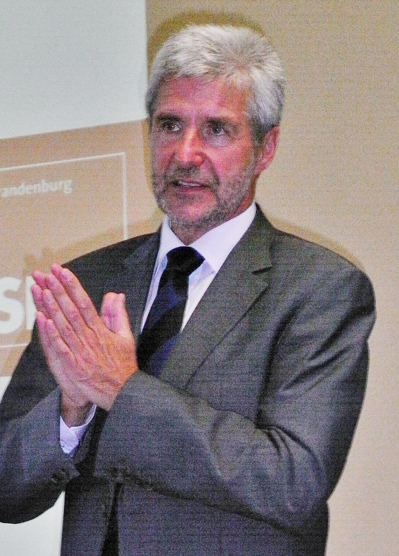 Holger Rupprecht, former minister of education of Brandenburg state, Germany